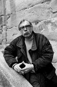 Jacques Chessex